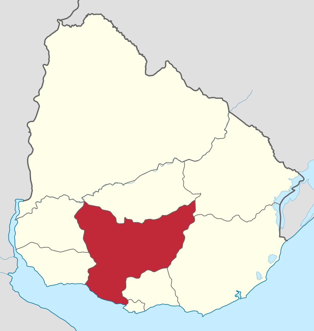 1830 map of San José Department, Uruguay. It comprised the territory of the present-day departments of Flores, Florida and San José